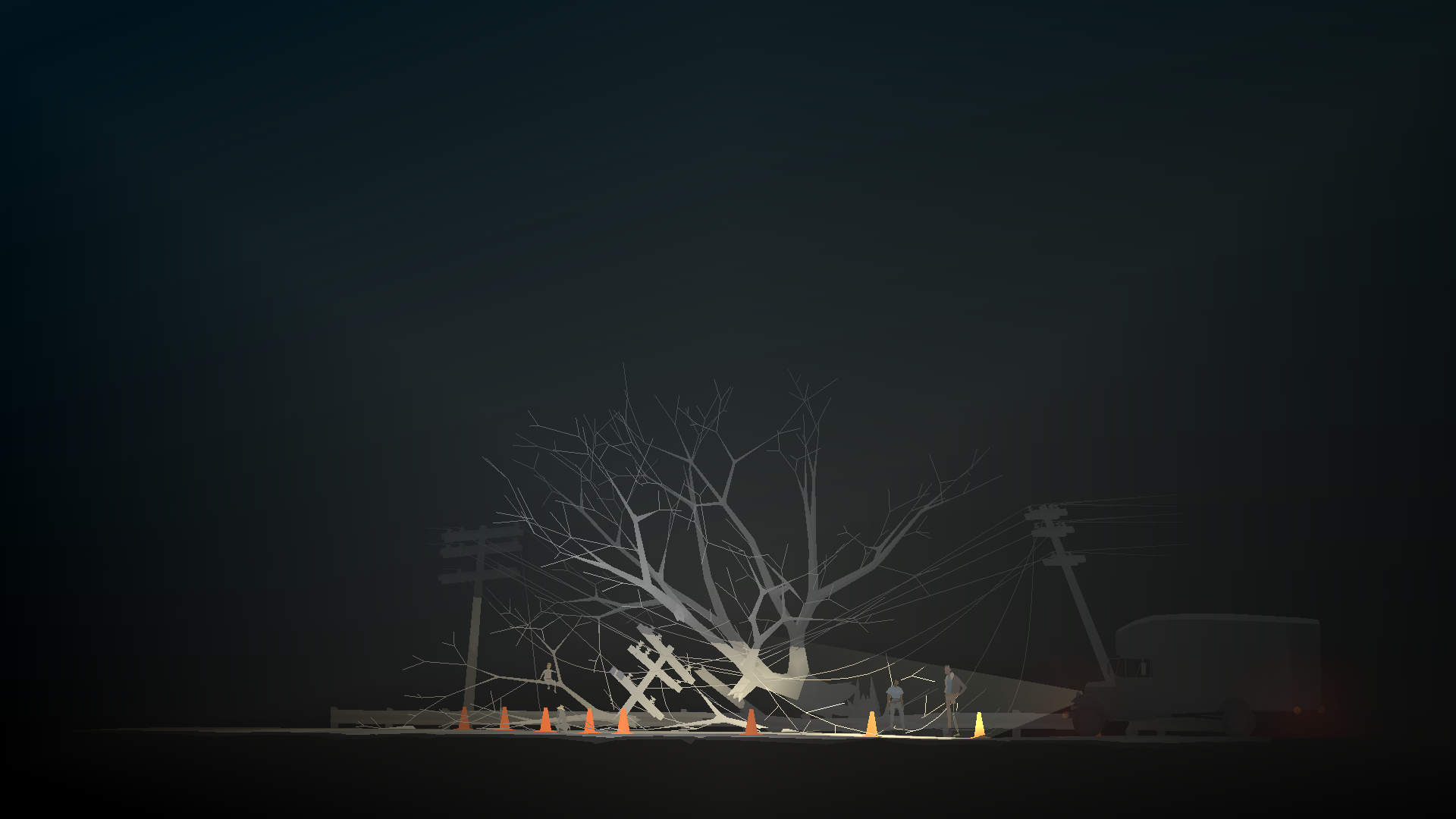 Screenshot of the game Kentucky Route Zero.